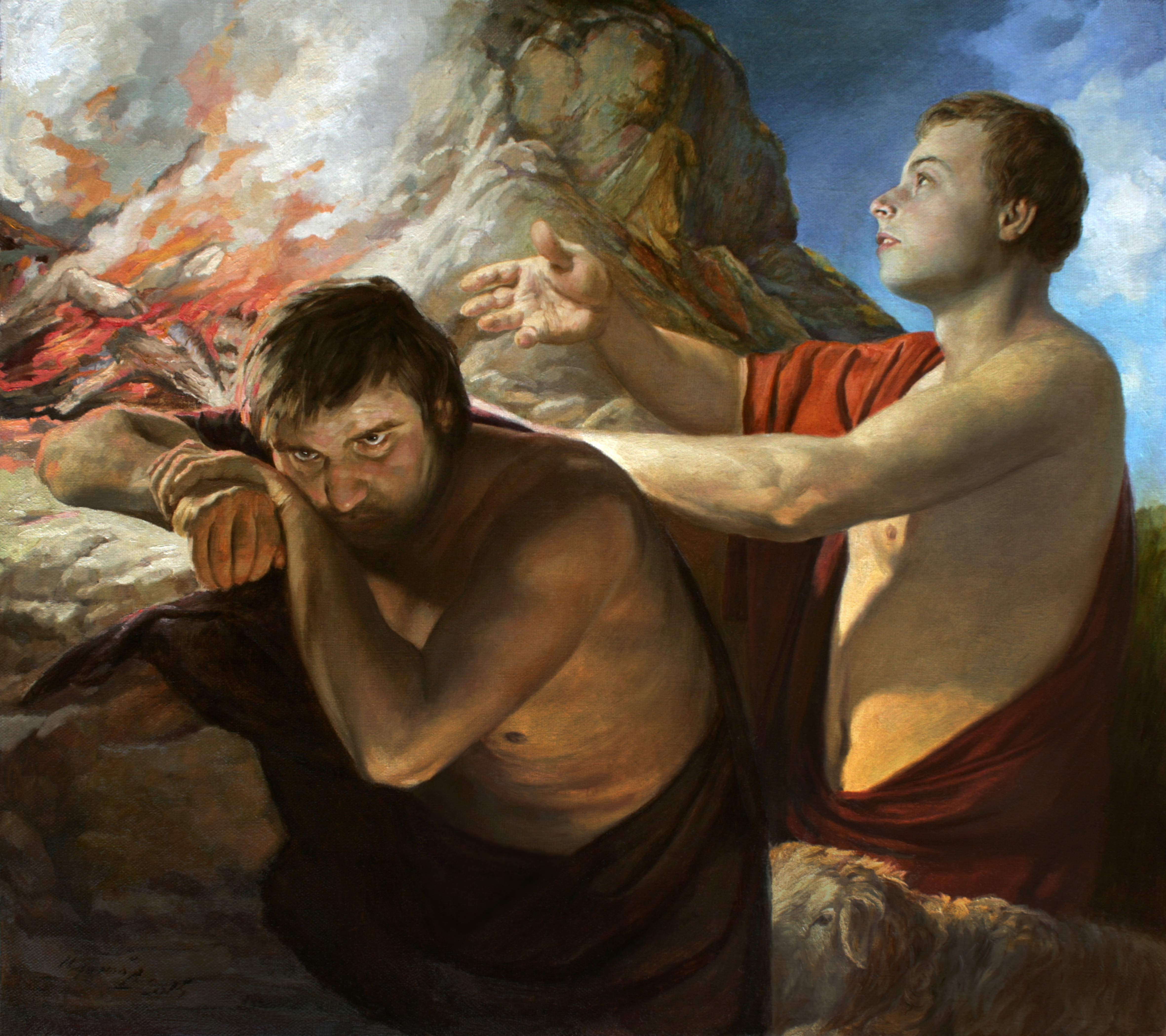 Cain and Abel. 2015. Oil on canvas. 80×90. Artist A. N. Mironov